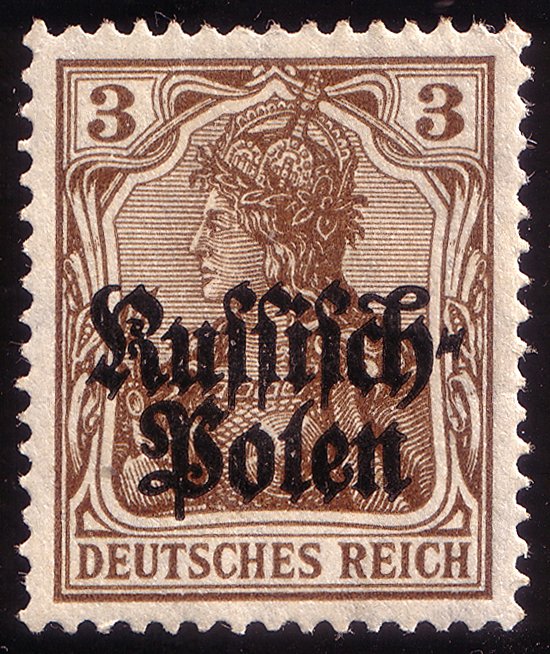 Postage stamp for the parts of Russia (Poland) occupied by German empire, 3 pfennigs, 1915 (Michel DR-PL 1)